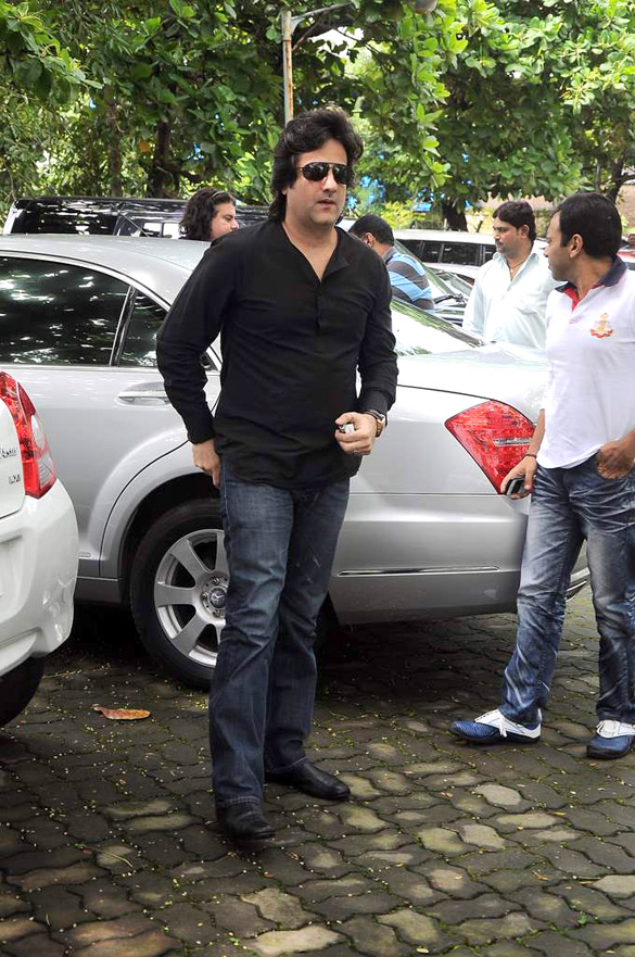 Fardeen Khan at Dara Singh's funeral